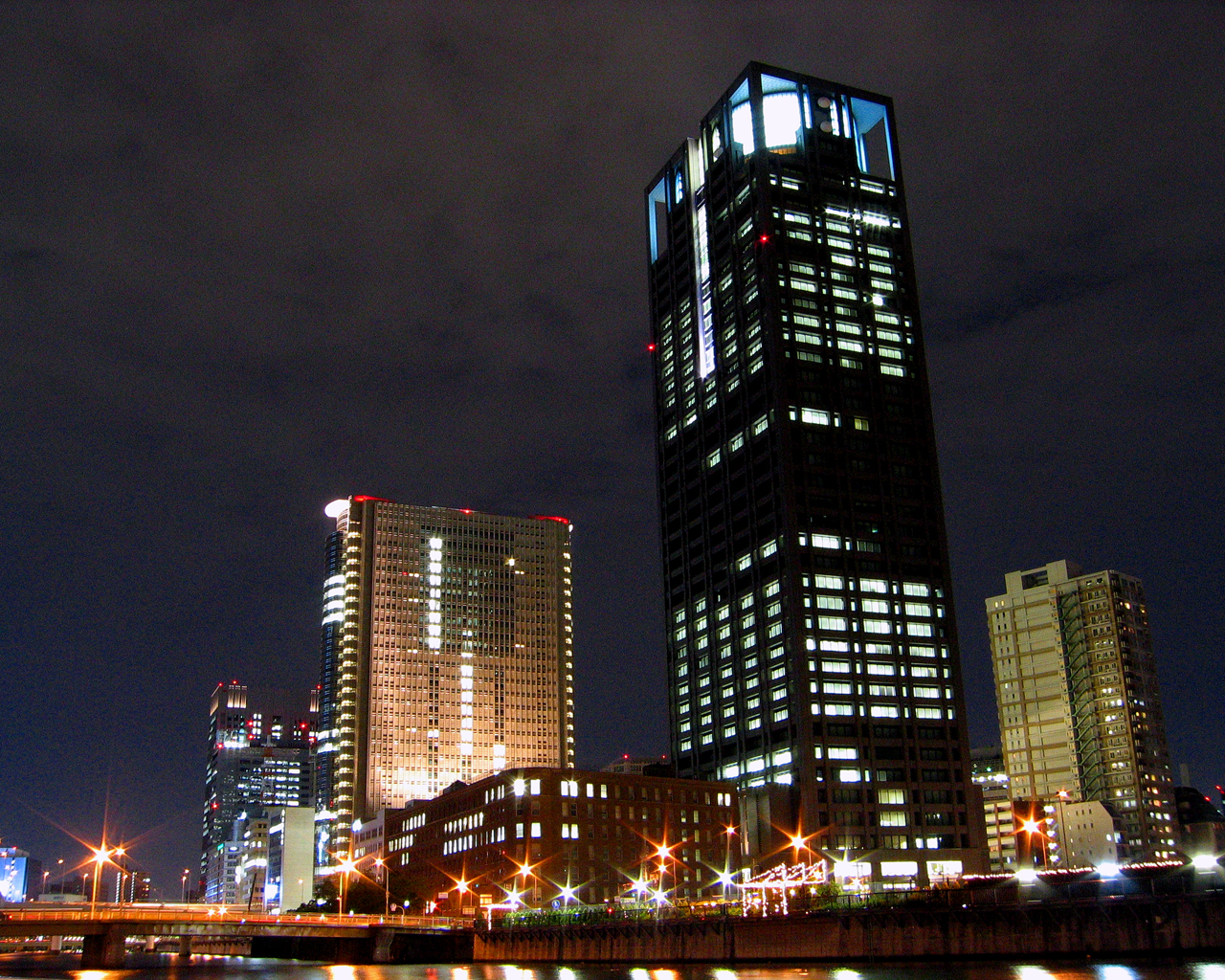 This photograph is the night view of Osaka Nakanoshima.